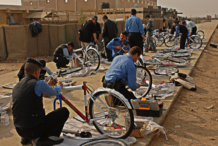 Iraqi Police work in groups and individually to assemble their bicycles during training at the Kirkuk Police Academy in Kirkuk, Iraq, Nov. 15. This group will be the first to graduate and become bicycle police officers in Kirkuk city. See more at Bike cops soon to be new addition to Iraqi Police force